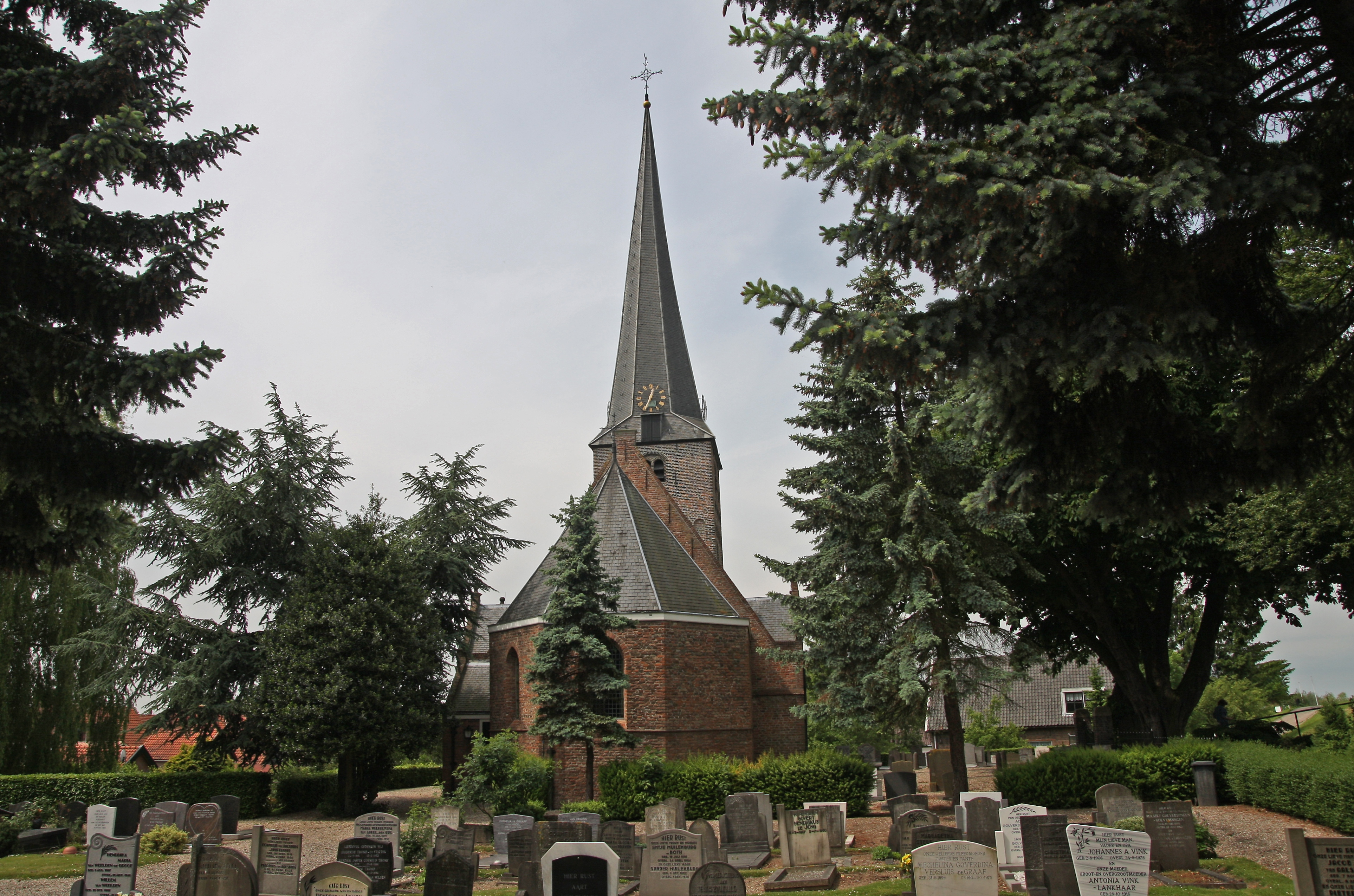 Church from Spijk (the Netherlands) with graves.